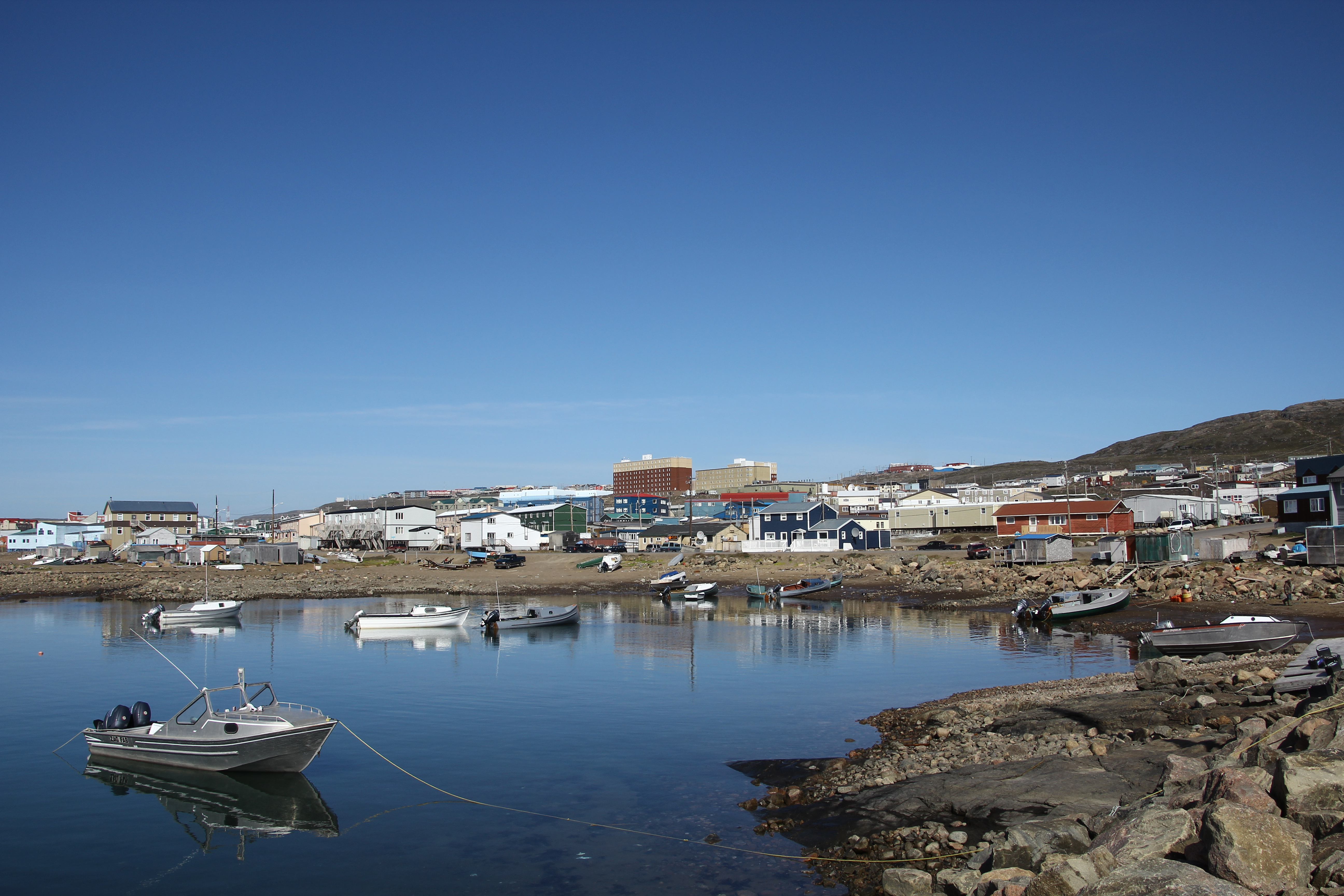 Waterfront of Iqaluit with fisher boats in the foreground and the cityscape of the town in the background